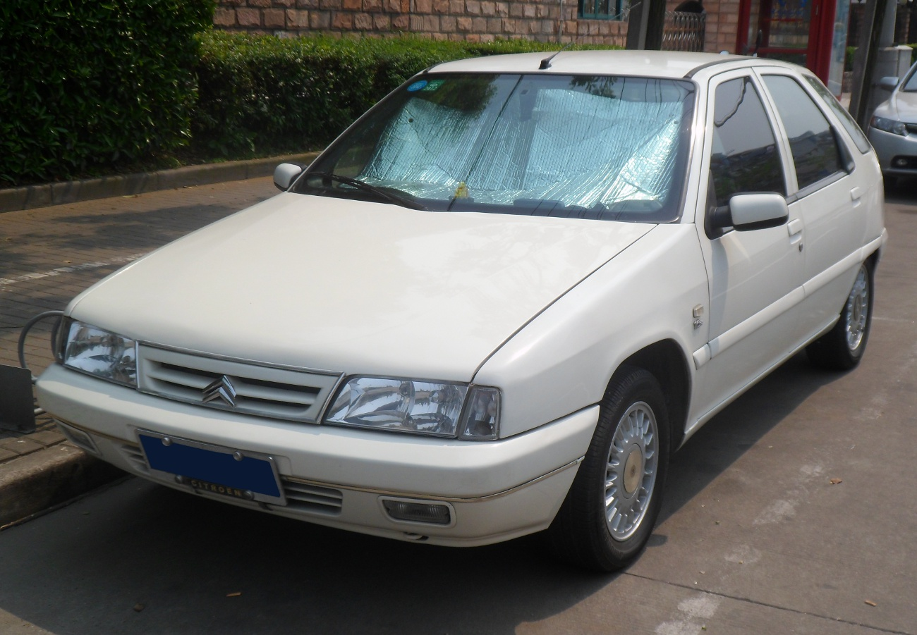 Citroën Fukang hatch photographed in Shanghai, China.